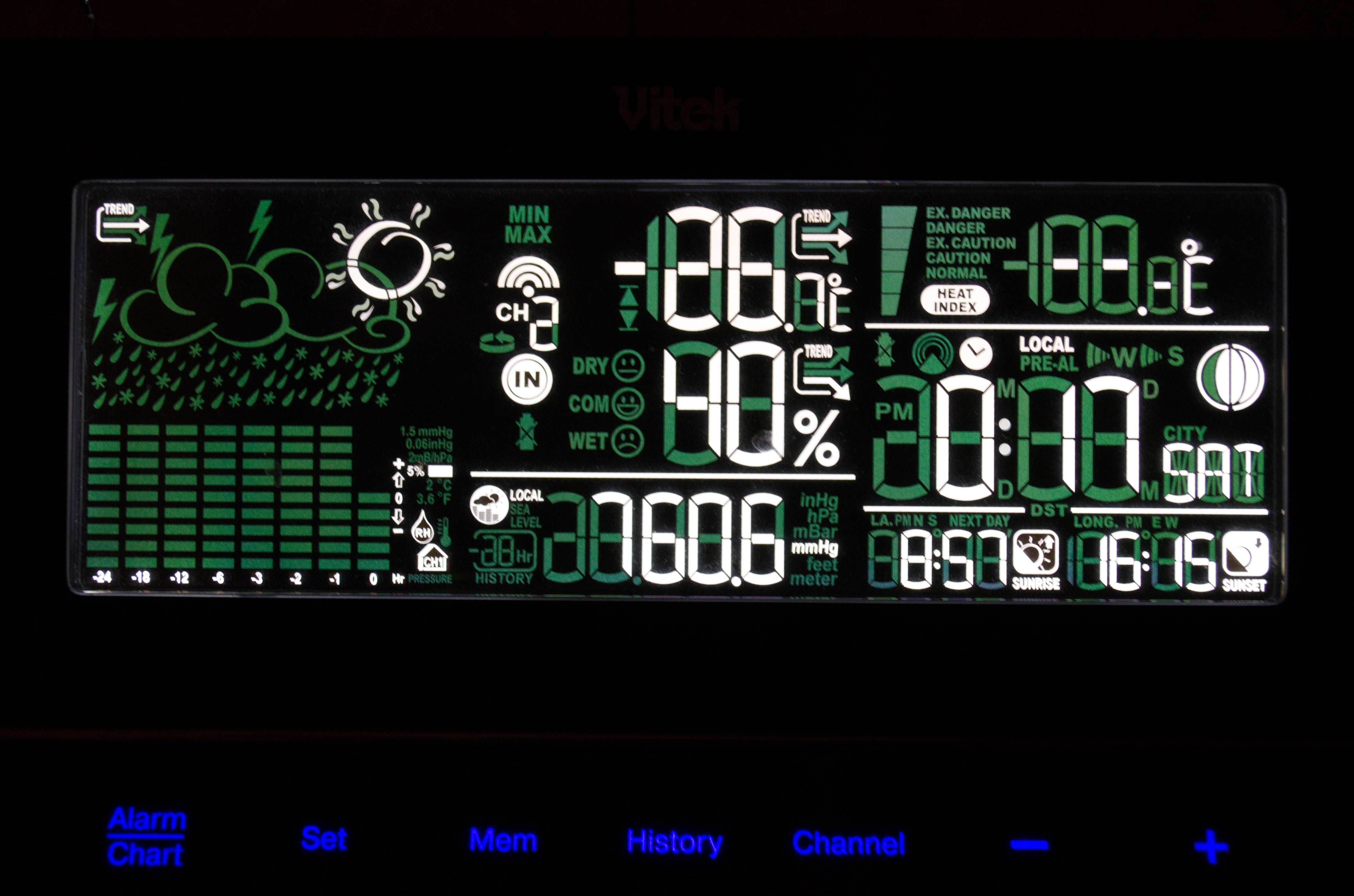 Extremely cold weather in Moscow on 7 January 2016. It's the coldest night on 7 January in 21 century in Moscow — (in Russian). Data from the home mini-meteostation.